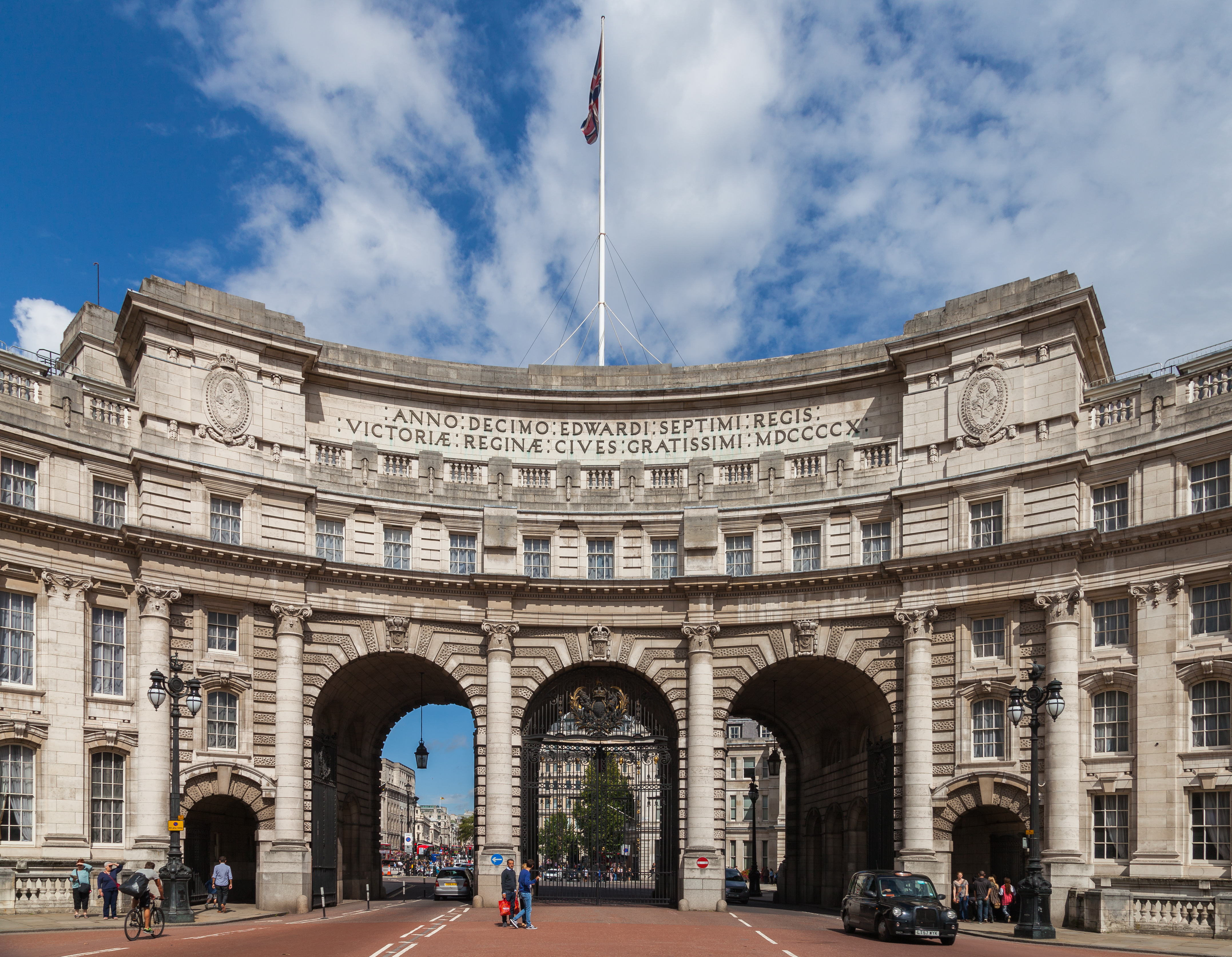 Admiralty Arch, London, England